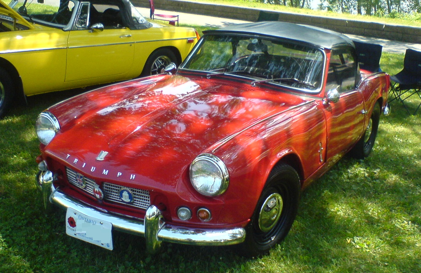 Triumph Spitfire 4 (or Mk 1) photographed in Ottawa, Ontario, Canada at the 2010 Ottawa British Auto Show.